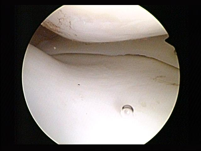 Normal medial meniscus located between femur (above) and tibia (below).